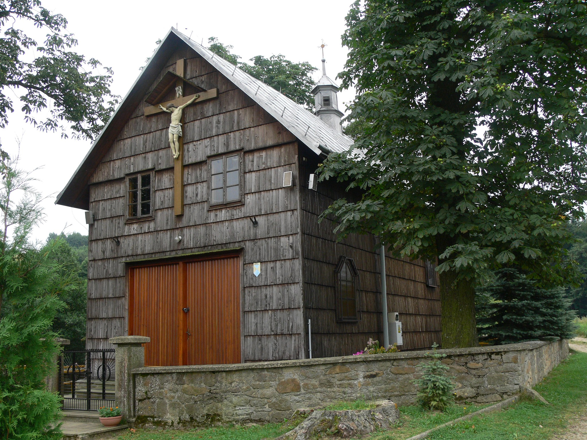 Church in Klimkówce, community Rymanów, Poland